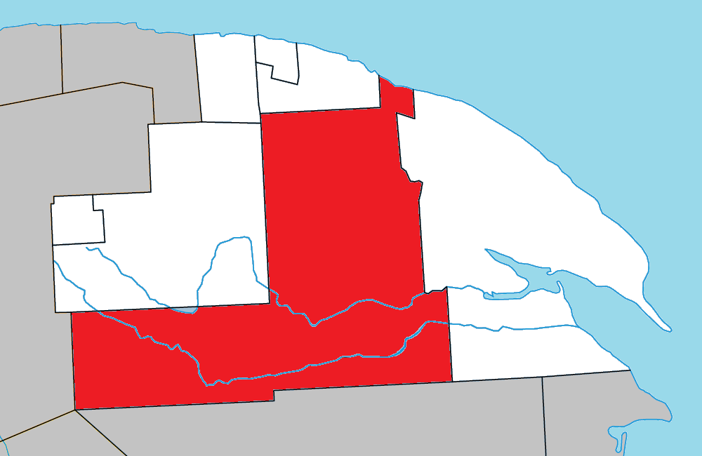 Location of Rivière-Saint-Jean, Quebec within La Côte-de-Gaspé Regional County Municipality.